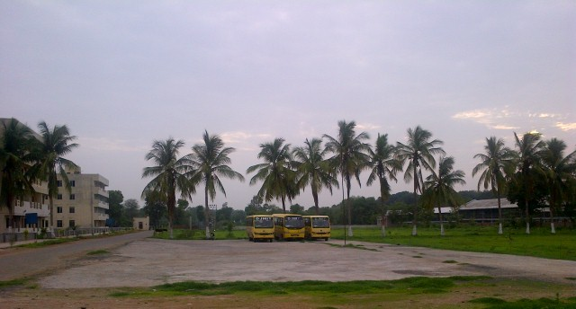 this is my college